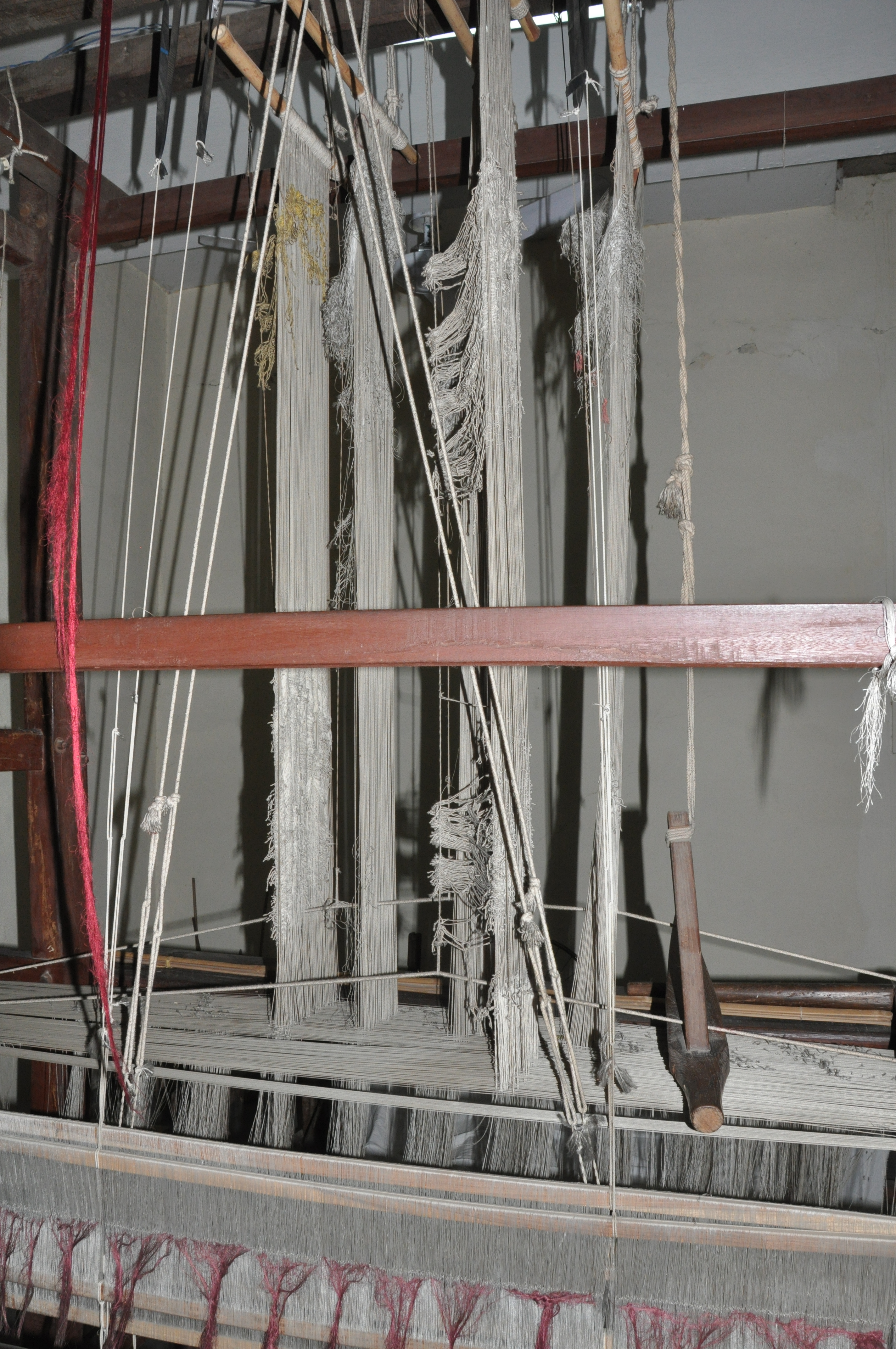 benaras brocade